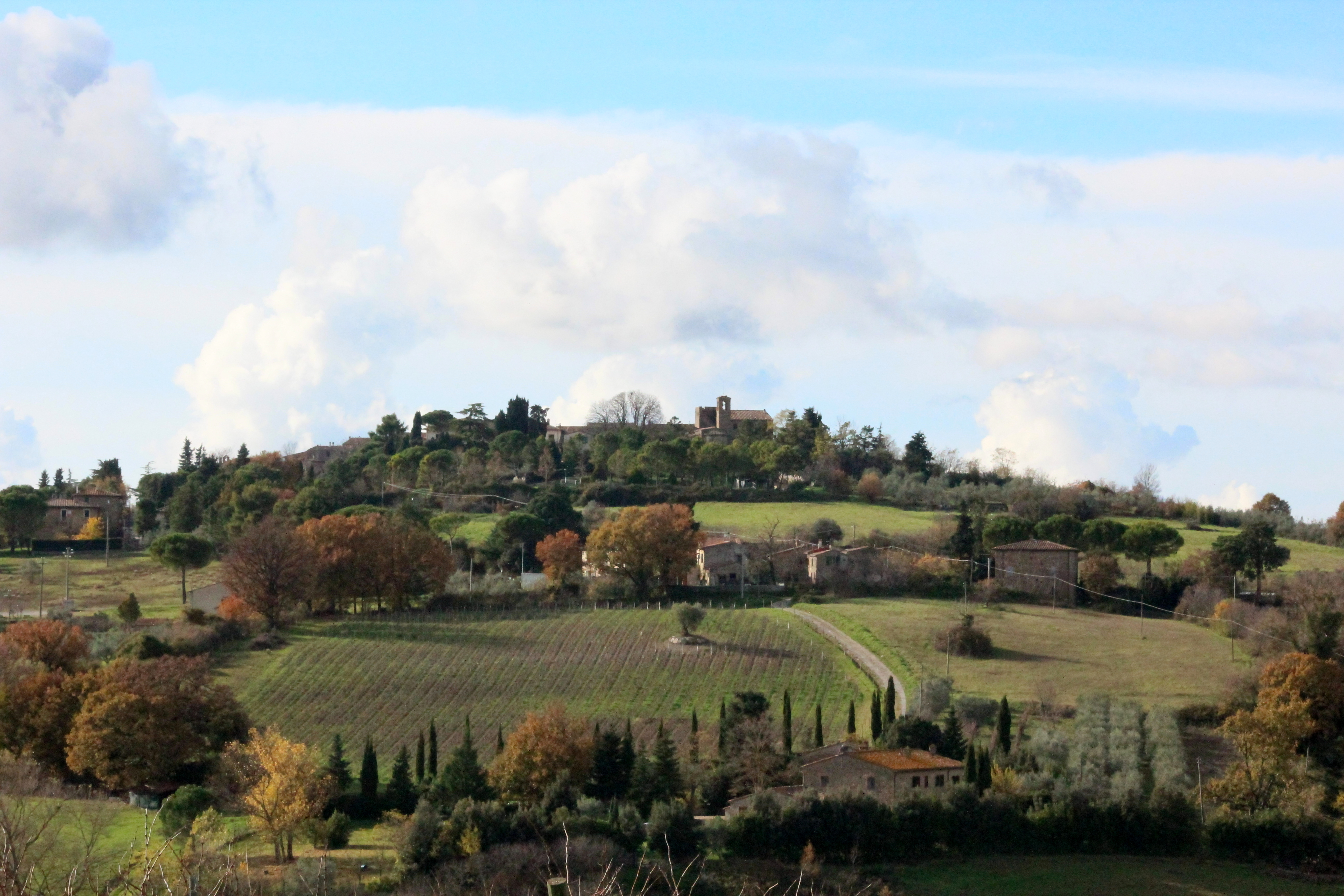 Panorama of Monteguidi, hamlet of Casole d'Elsa, Province of Siena, Tuscany, Italy